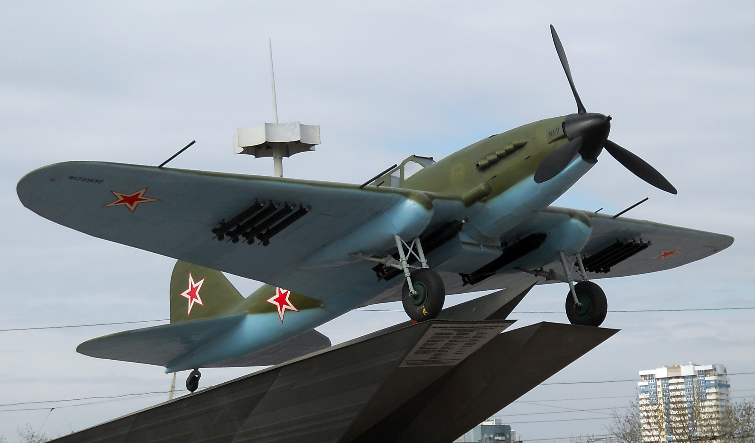 monument of aircraft Il-2 in Samara